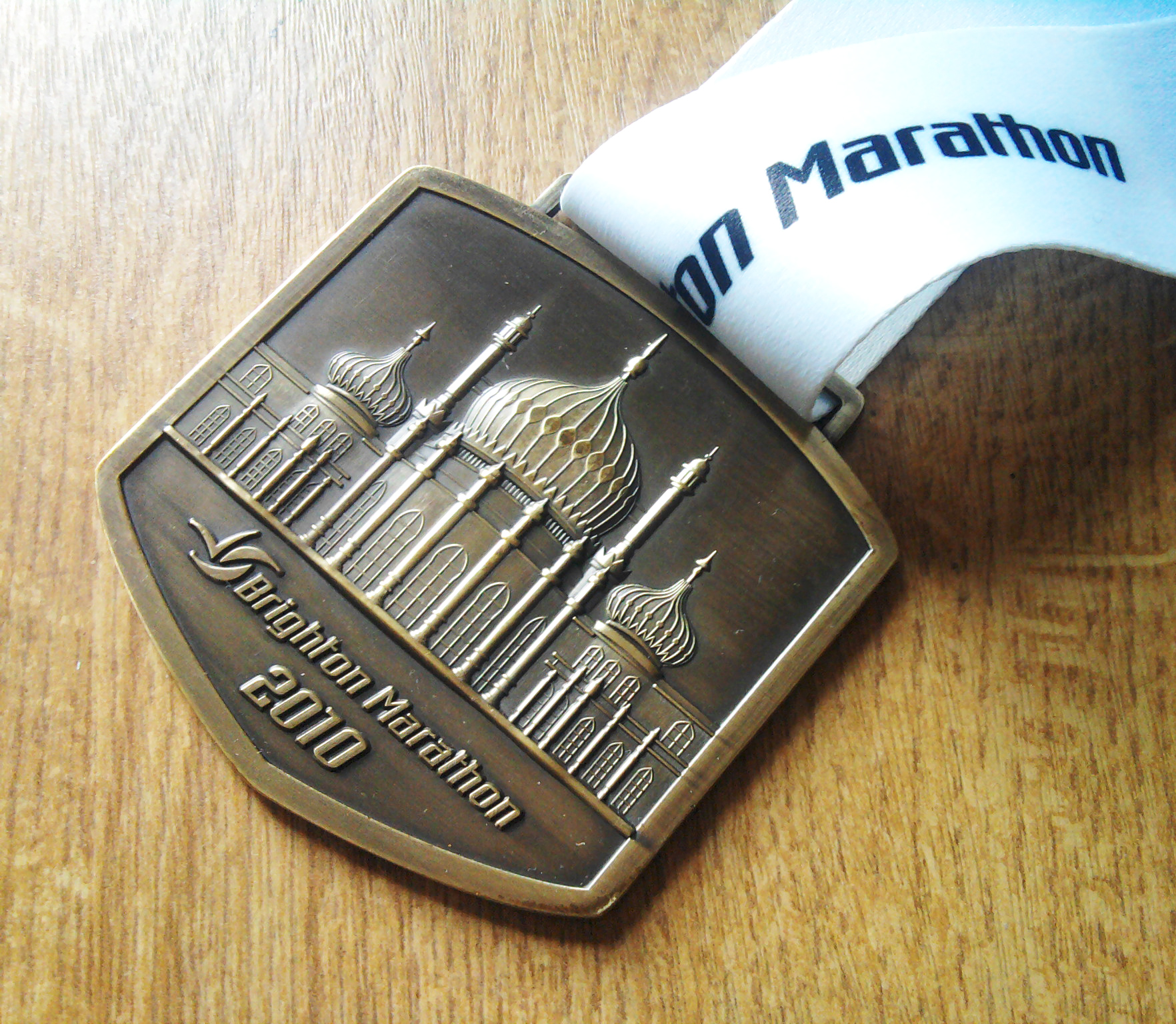 2010 Brighton Marathon Finishers Medal